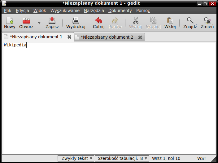 Screenshot of Polish Gedit